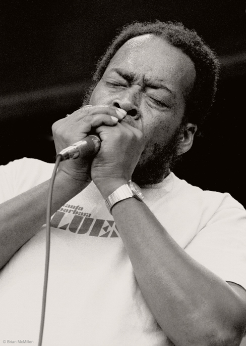 James Cotton at Monterey Jazz Festival, Monterey CA 1981. Photo: Brian McMillen /